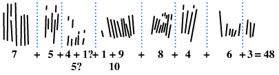 Representation of a column of Ishango bone with numbers: 7, 5, 5, 10, 8, 4, 6 and 3.